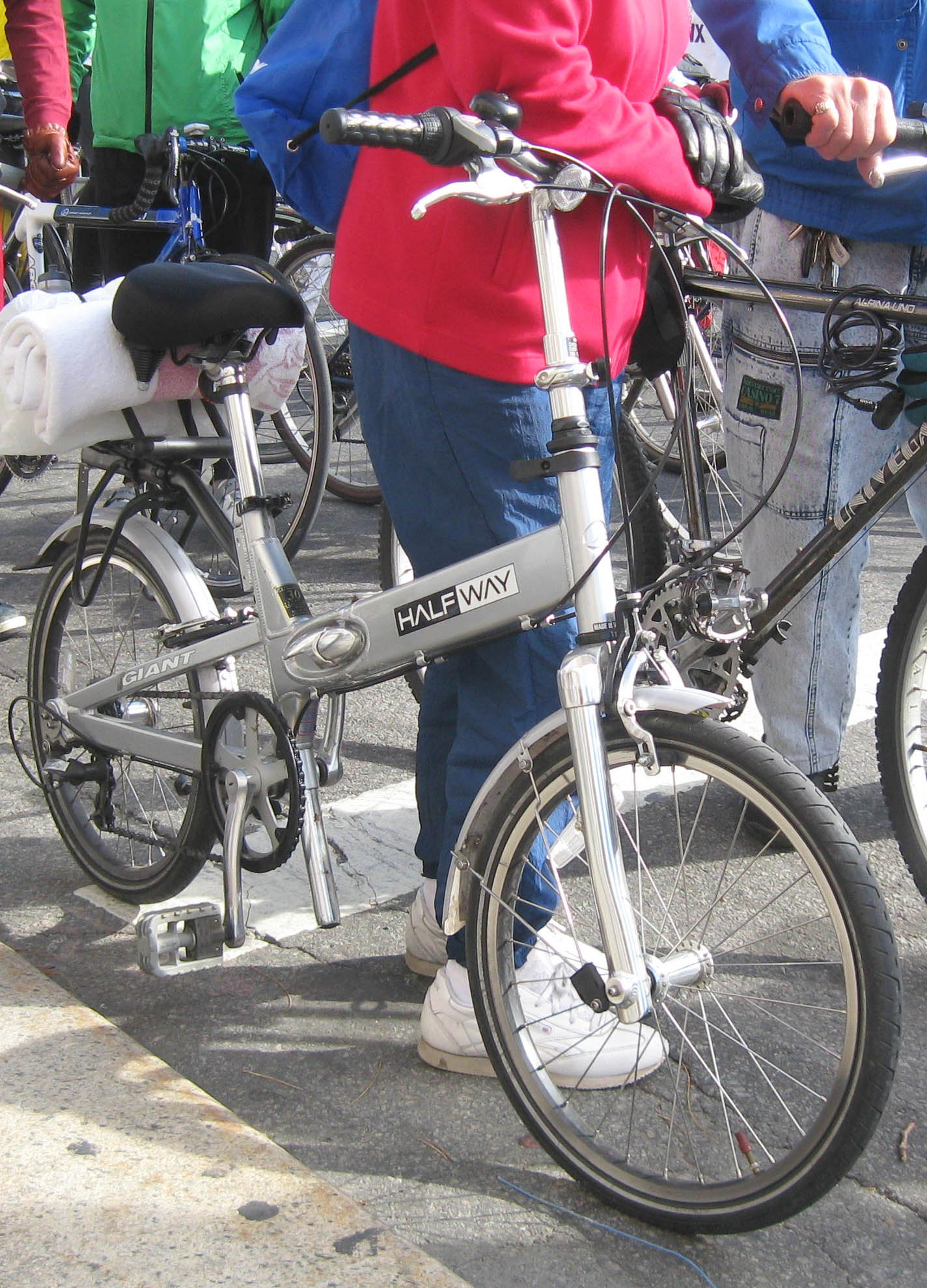 Looking northwest at Giant Manufacturing Halfway on Grand Concourse at about 160th Street, on a sunny late morning at start of Tour de Bronx of Transportation Alternatives